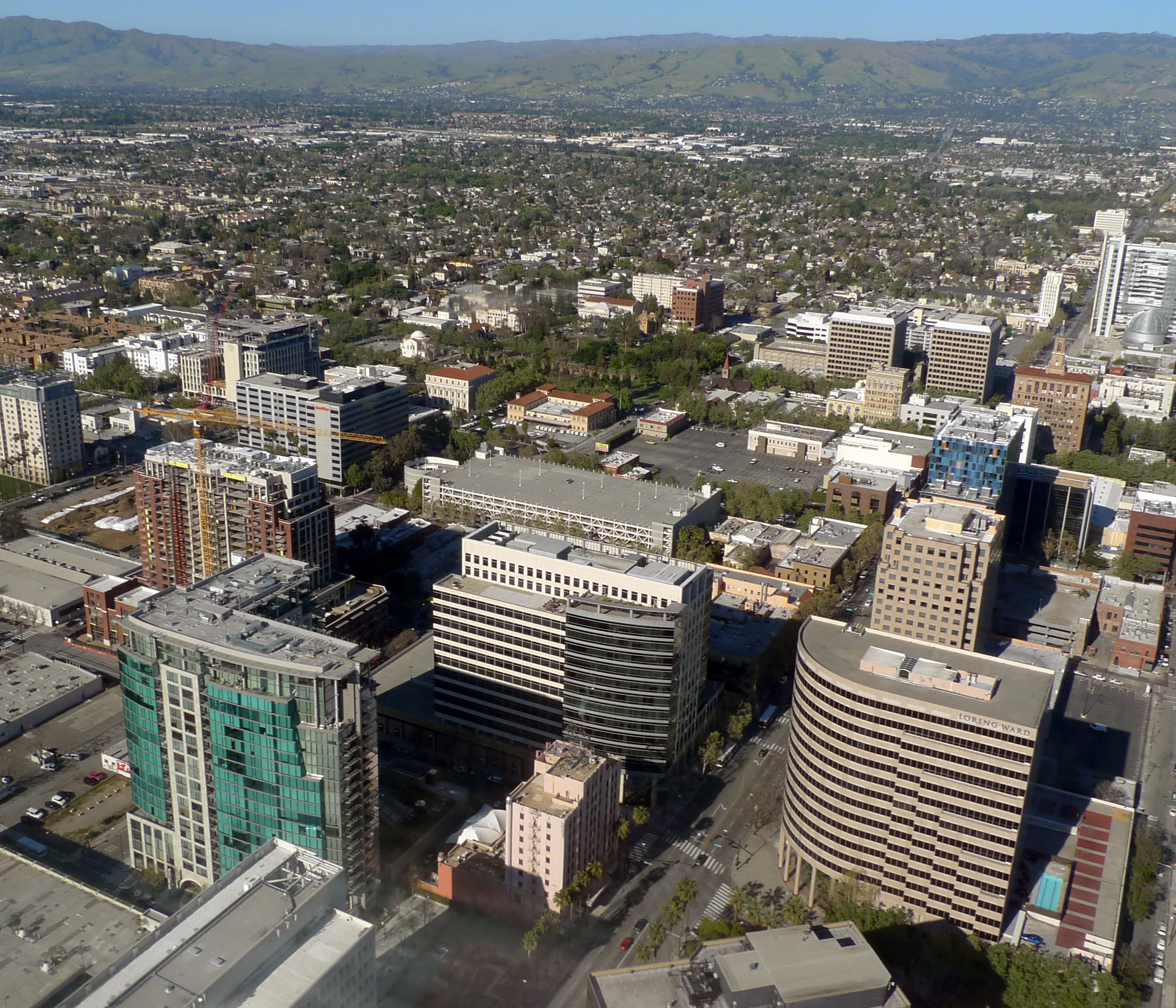 San Jose CA Downtown aerial view photo D Ramey Logan